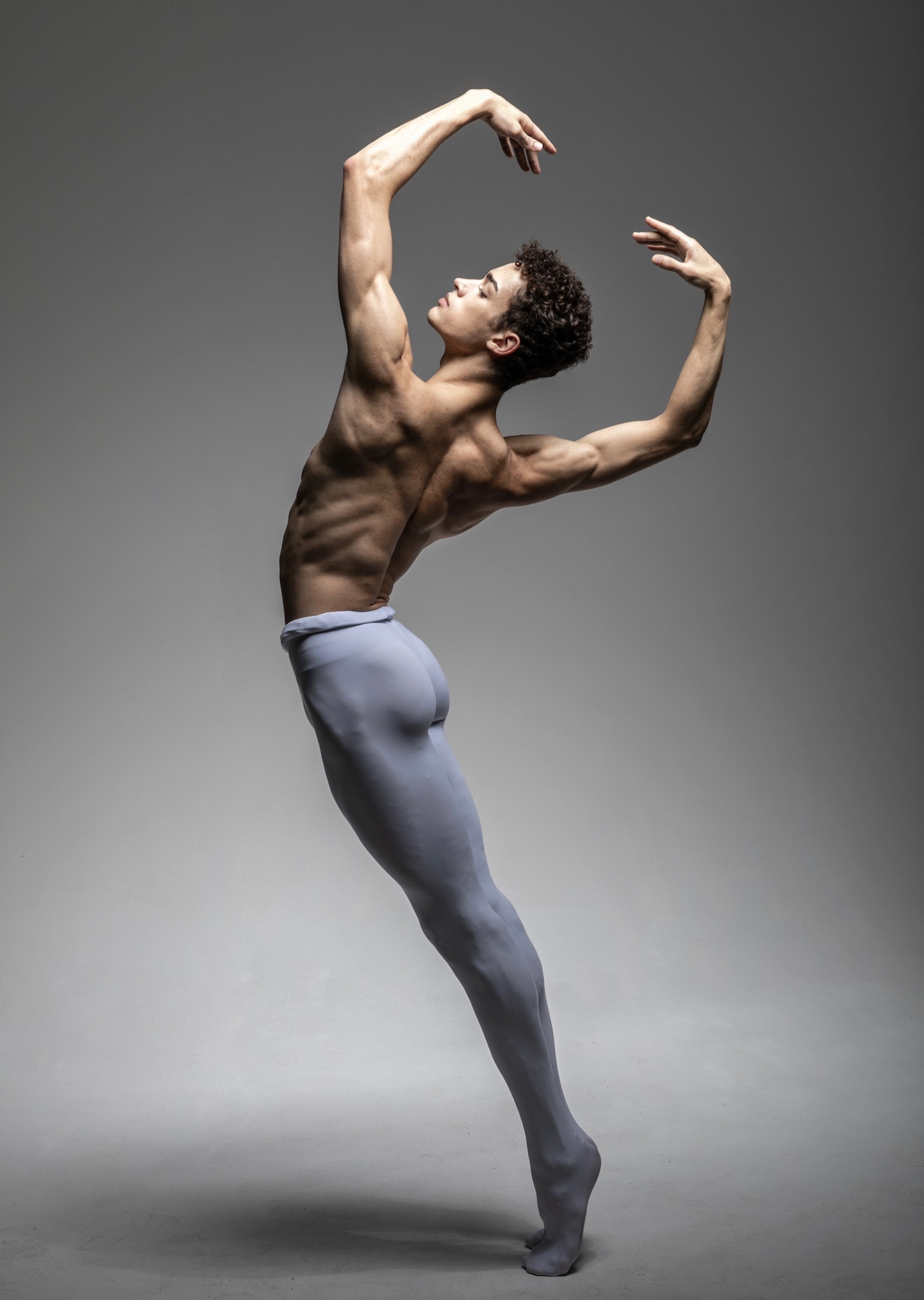 David Motta Soares. First Soloist with the Bolshoi Ballet